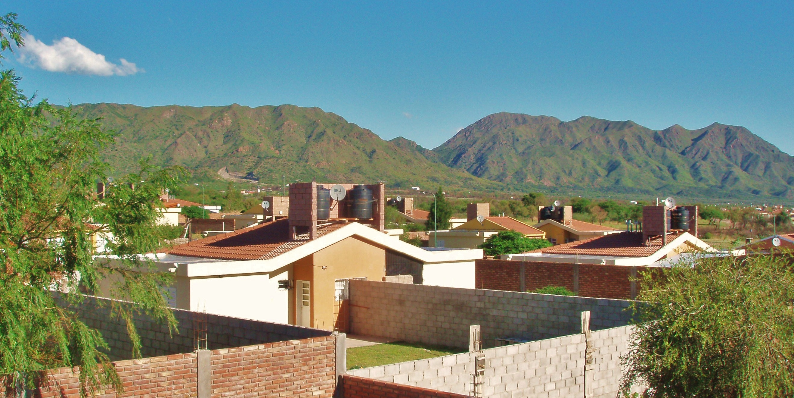 Techos y montañas en La Punta, San Luis, Argentina.